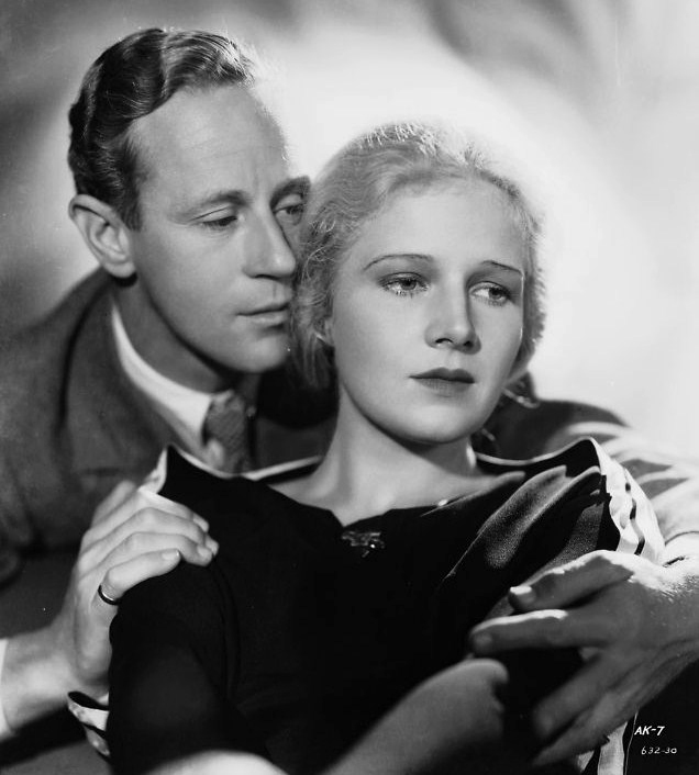 Leslie Howard & Ann Harding in The Animal Kingdom - publicity still (cropped : see source)